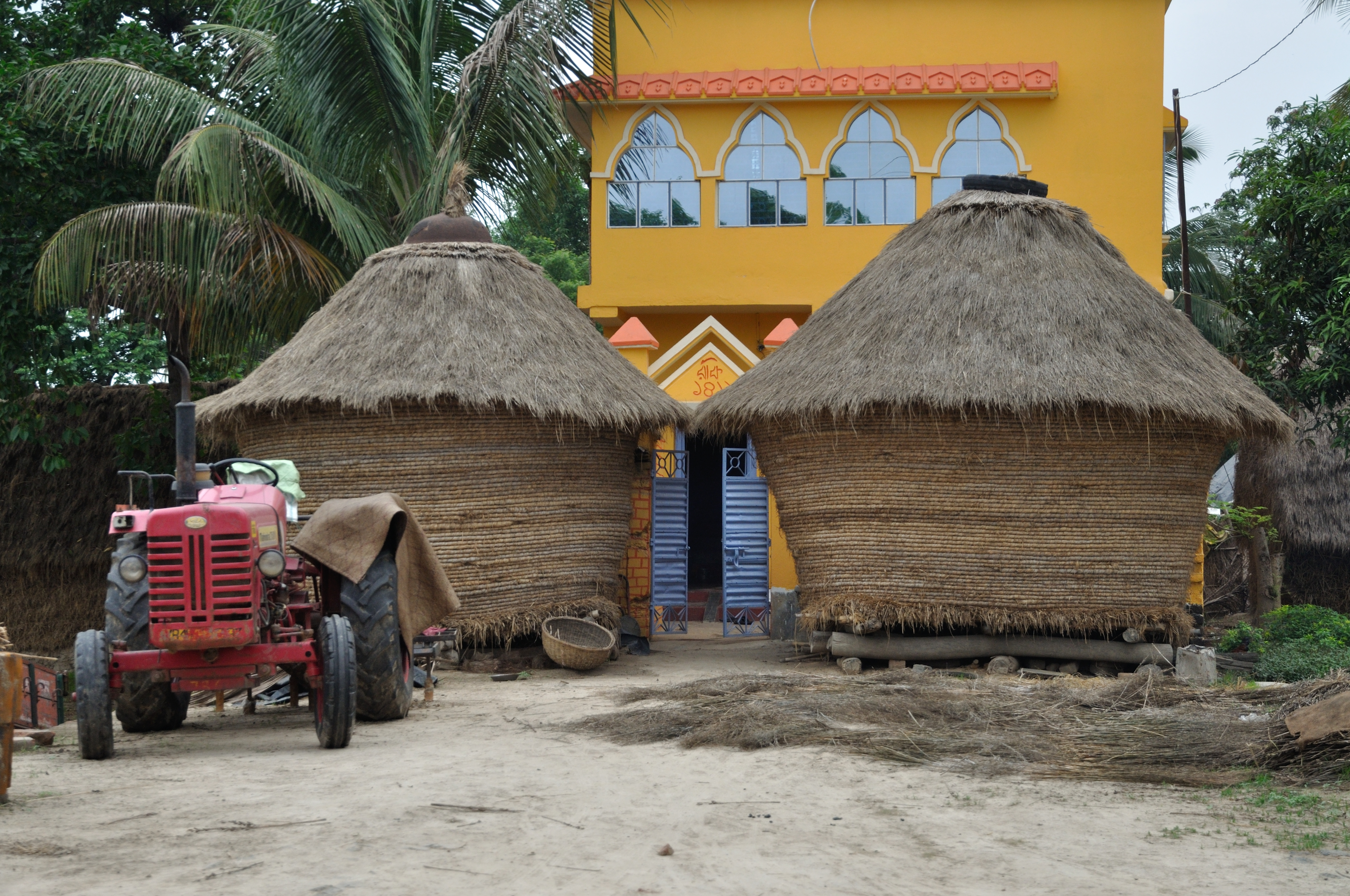 Photographed Bardhaman district, West Bengal.